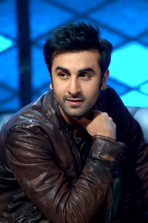 Ranbir Kapoor at Indian Idol 6